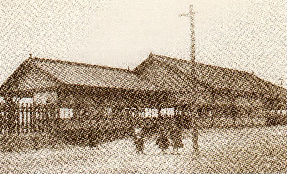 Anamori Station printed in the postcard, in 1916.